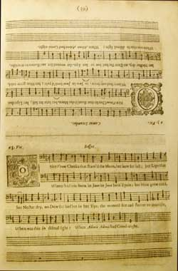 Table-book printing from Henry Lawes. The treasury of musick: containing ayres and dialogues to sing to the theorbo-lute or basse-viol. London, printed by William Godbid for John Playford, 1669.